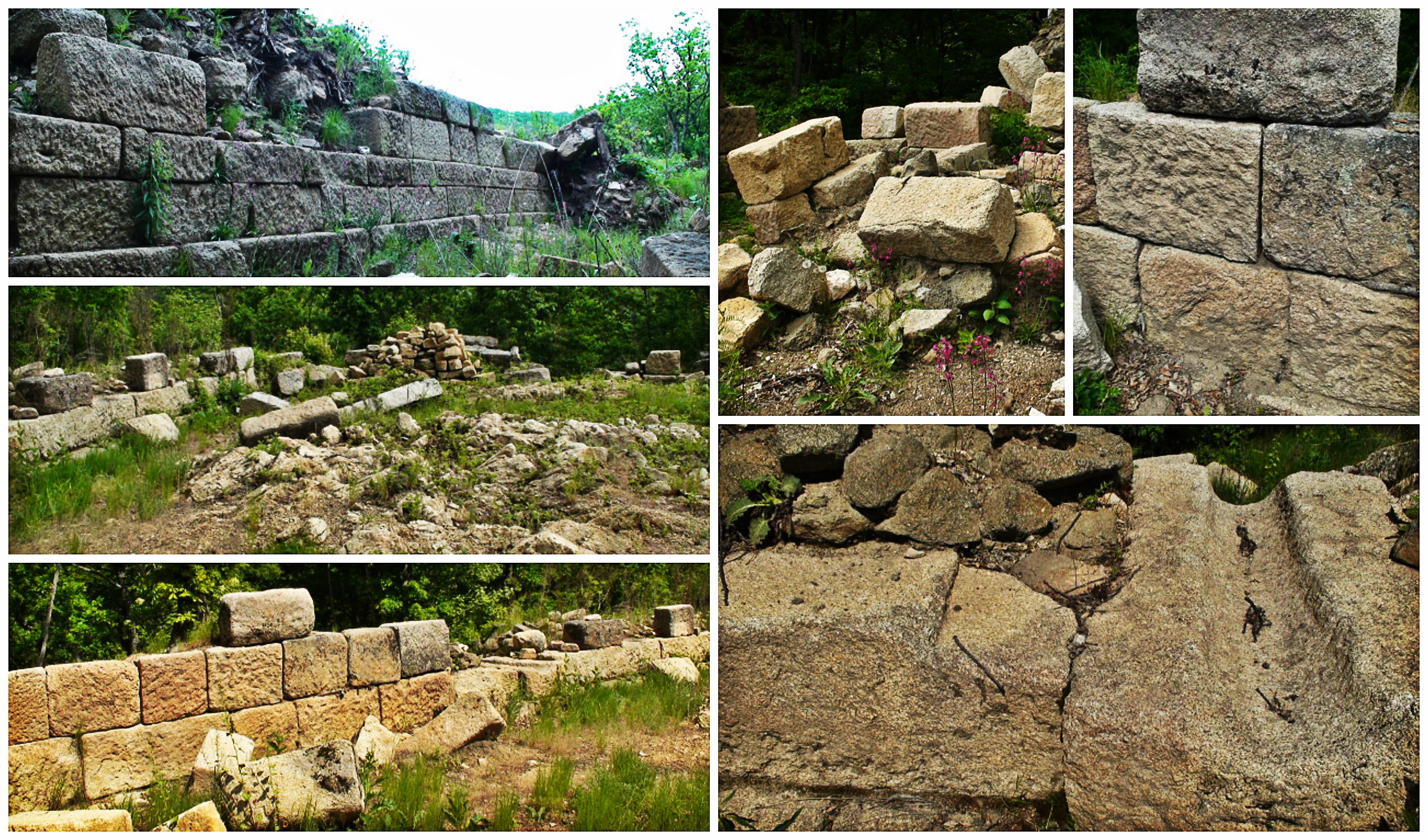 Smilovene Walls Koprivshtitza BG